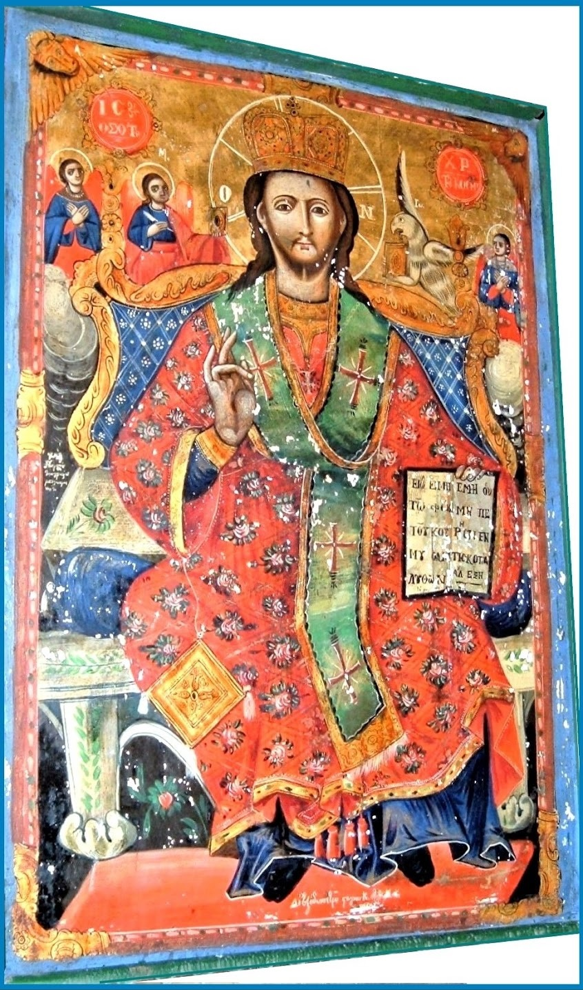 Christ Icon in Gorno Drenoveni Ano Kranionas Church